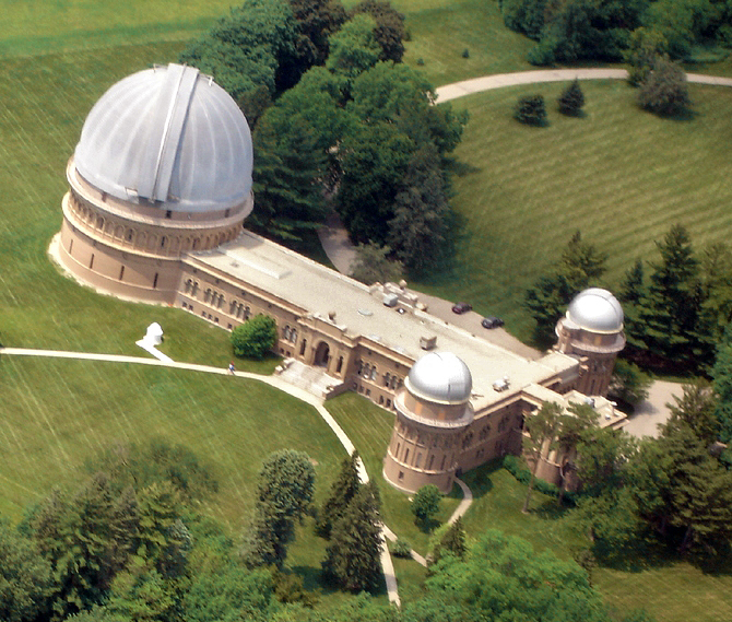 This picture was taken of Yerkes Observatory, which holds a refracting telescope. It was taken from the air over Geneva Lake during the summer of 2006.